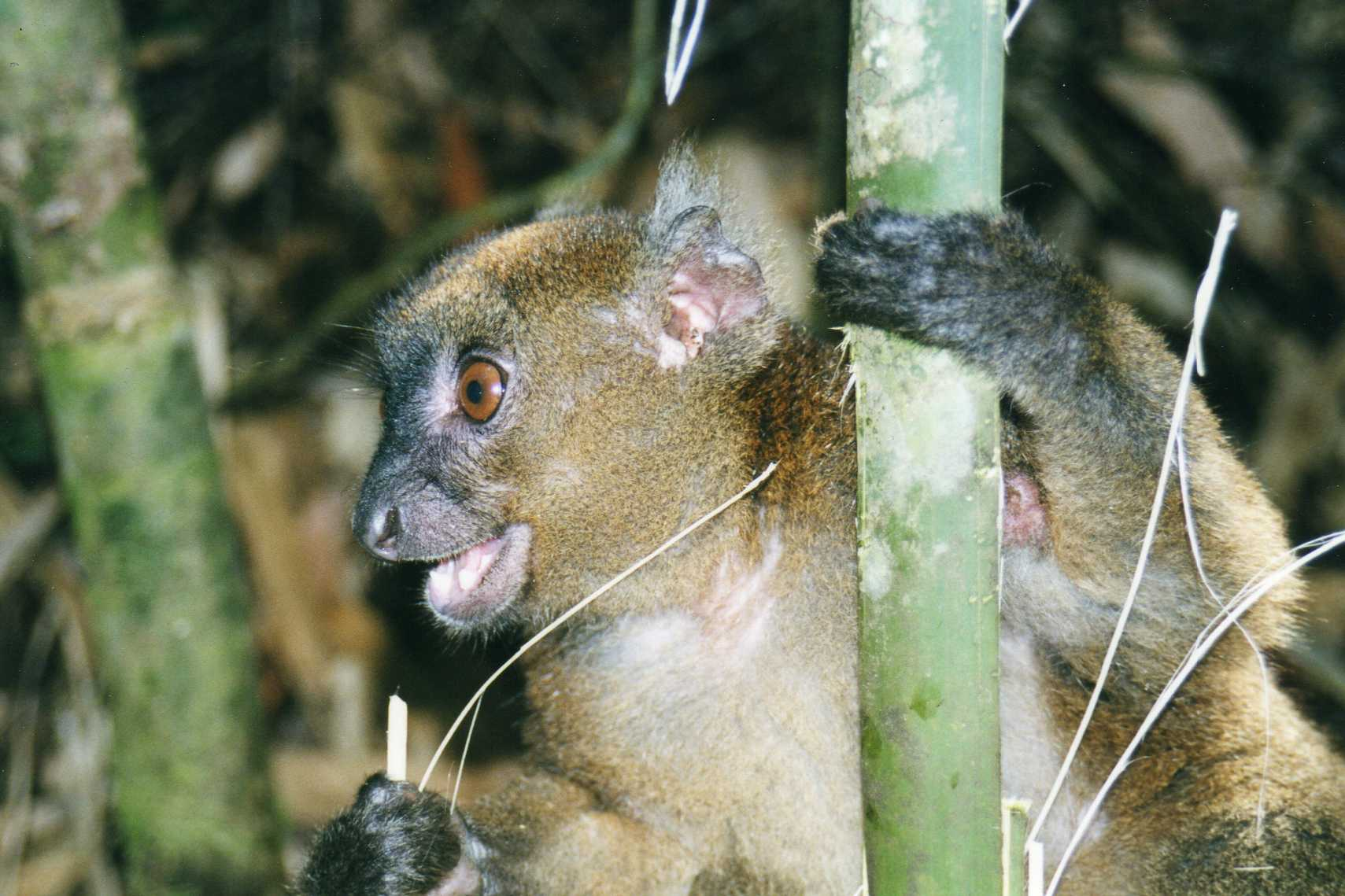 Greater Bamboo Lemur (Hapalemur simus) Ranomafana National Park